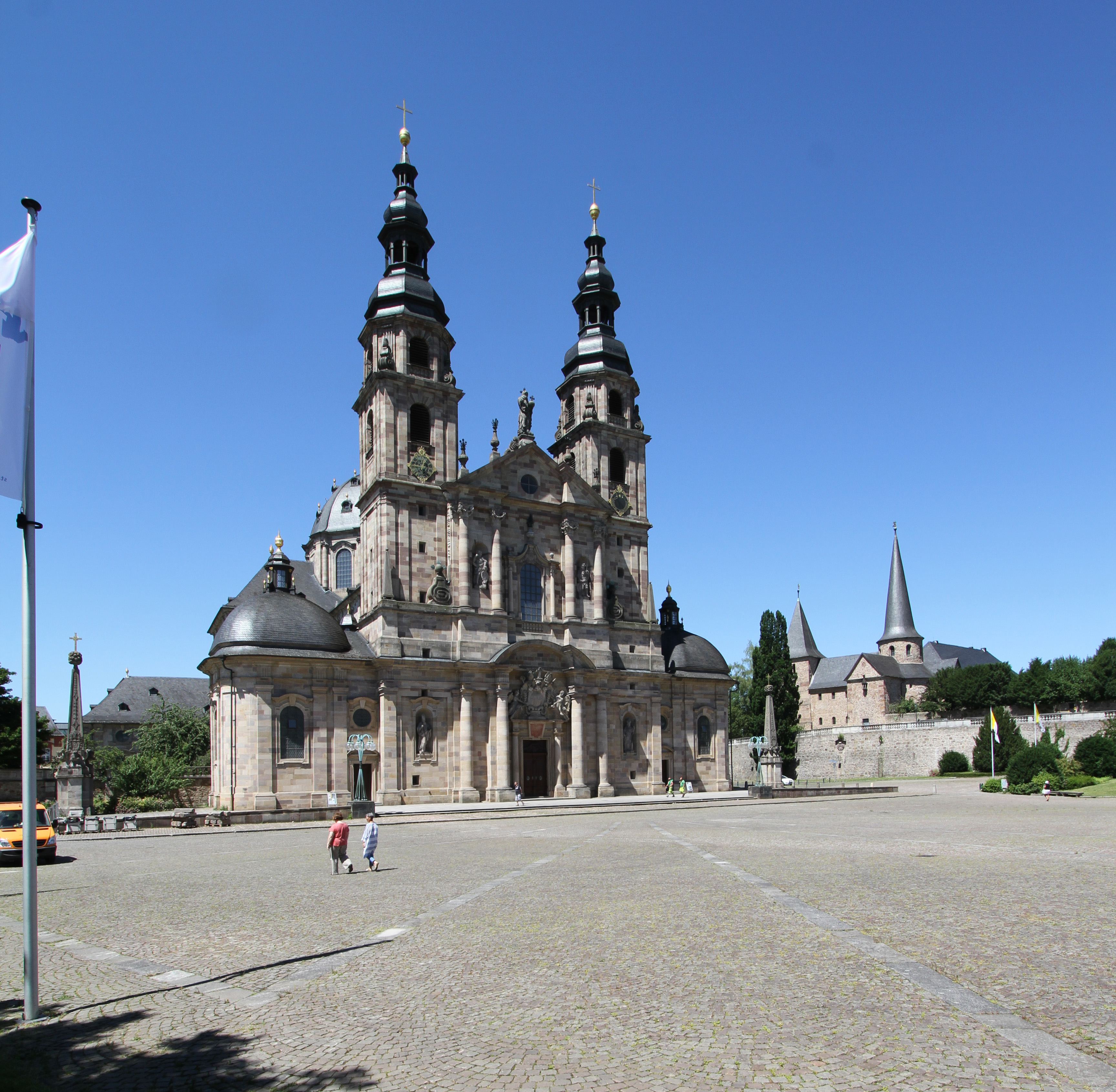 Fulda Cathedral